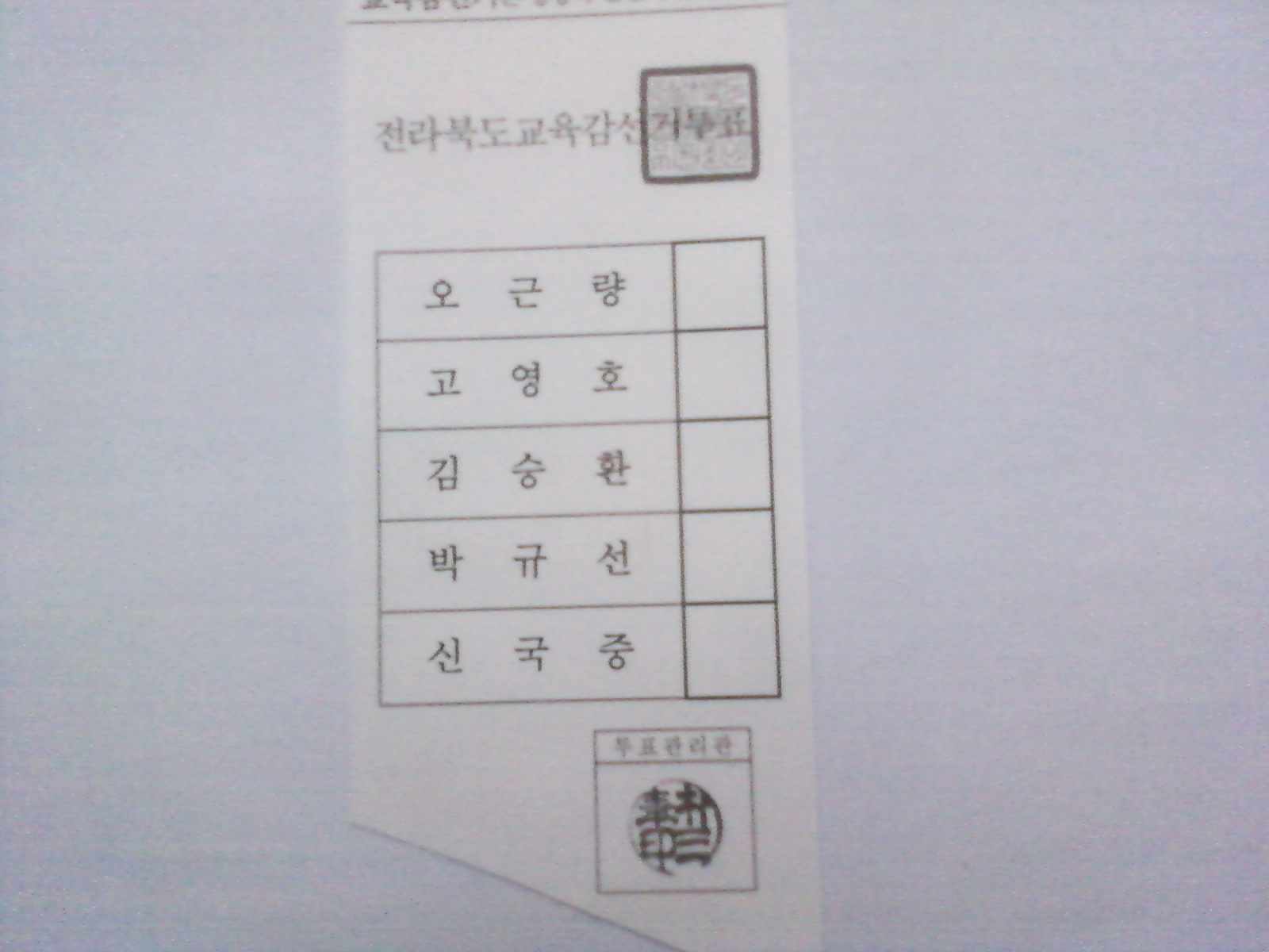 Korean 5th local election ballot paper - Jeollabuk-do (Gyoyukgam)